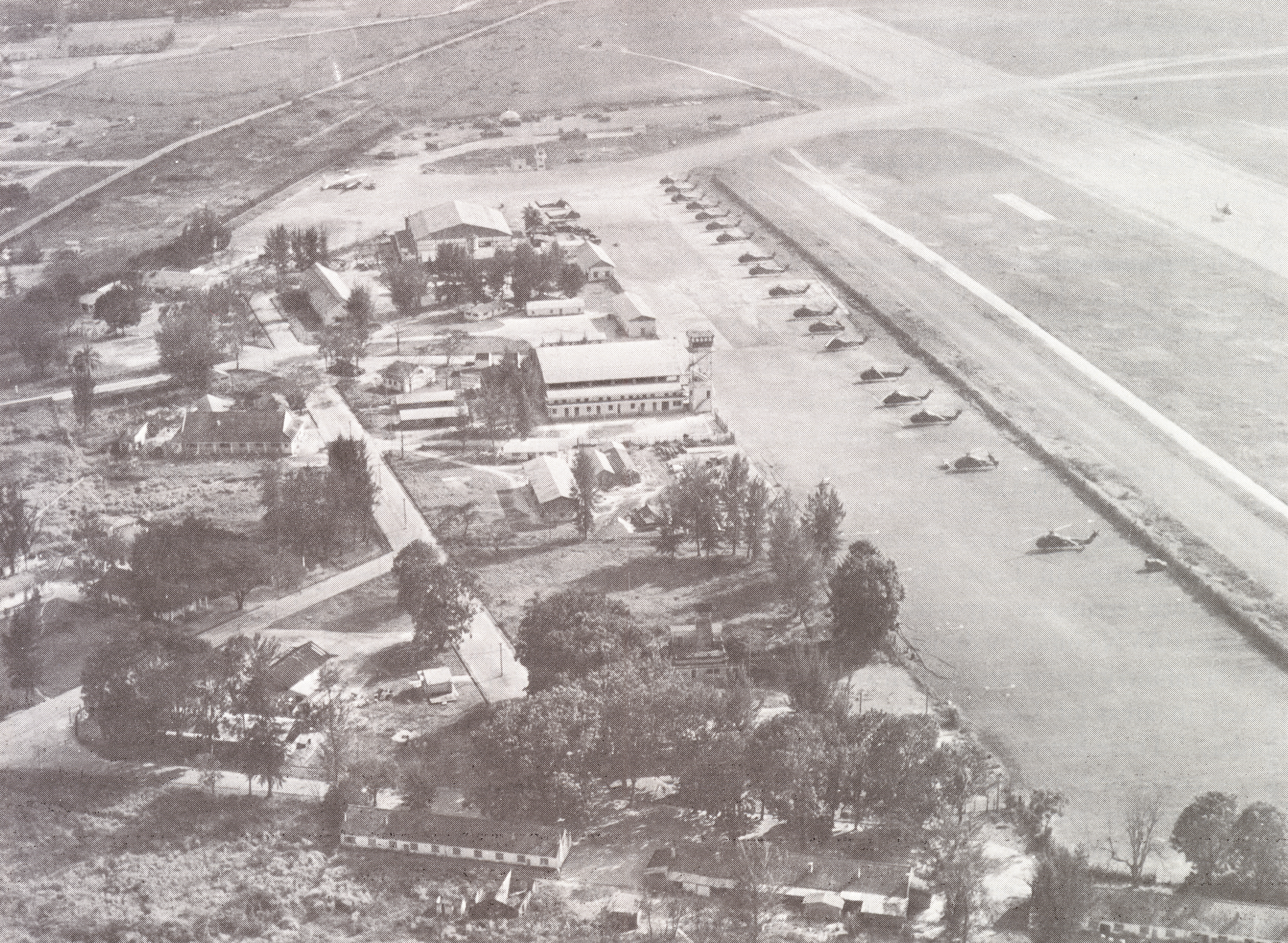 Aerial view of Marine helicopter flight line at Da Nang shortly after SHUFLY's relocation to I Corps in September 1962 during the Vietnam War.